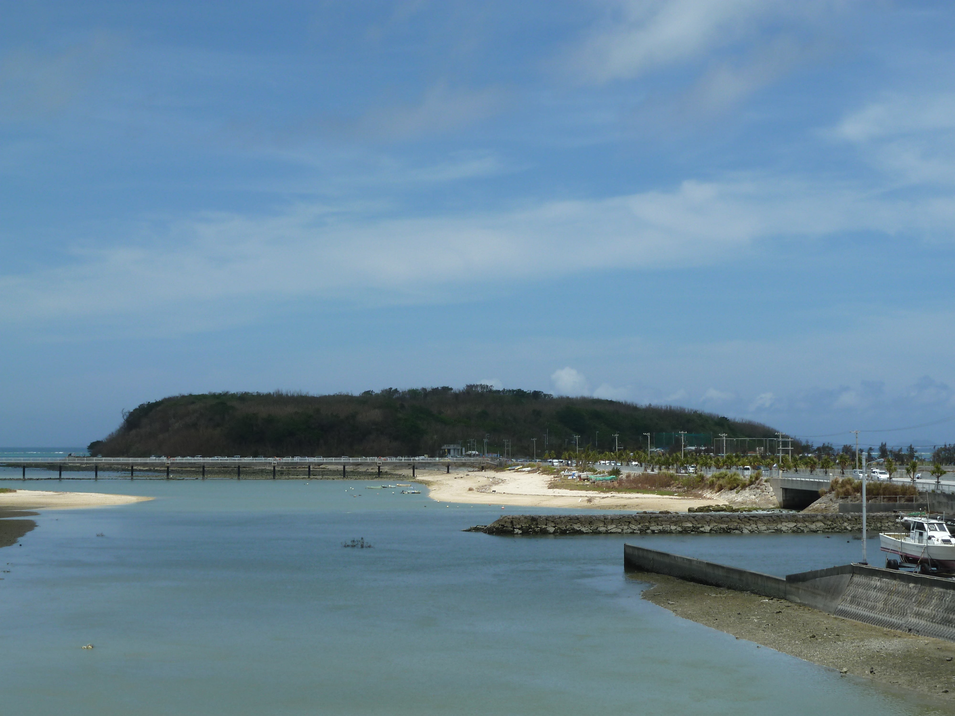 Senaga island in Okinawa, Japan